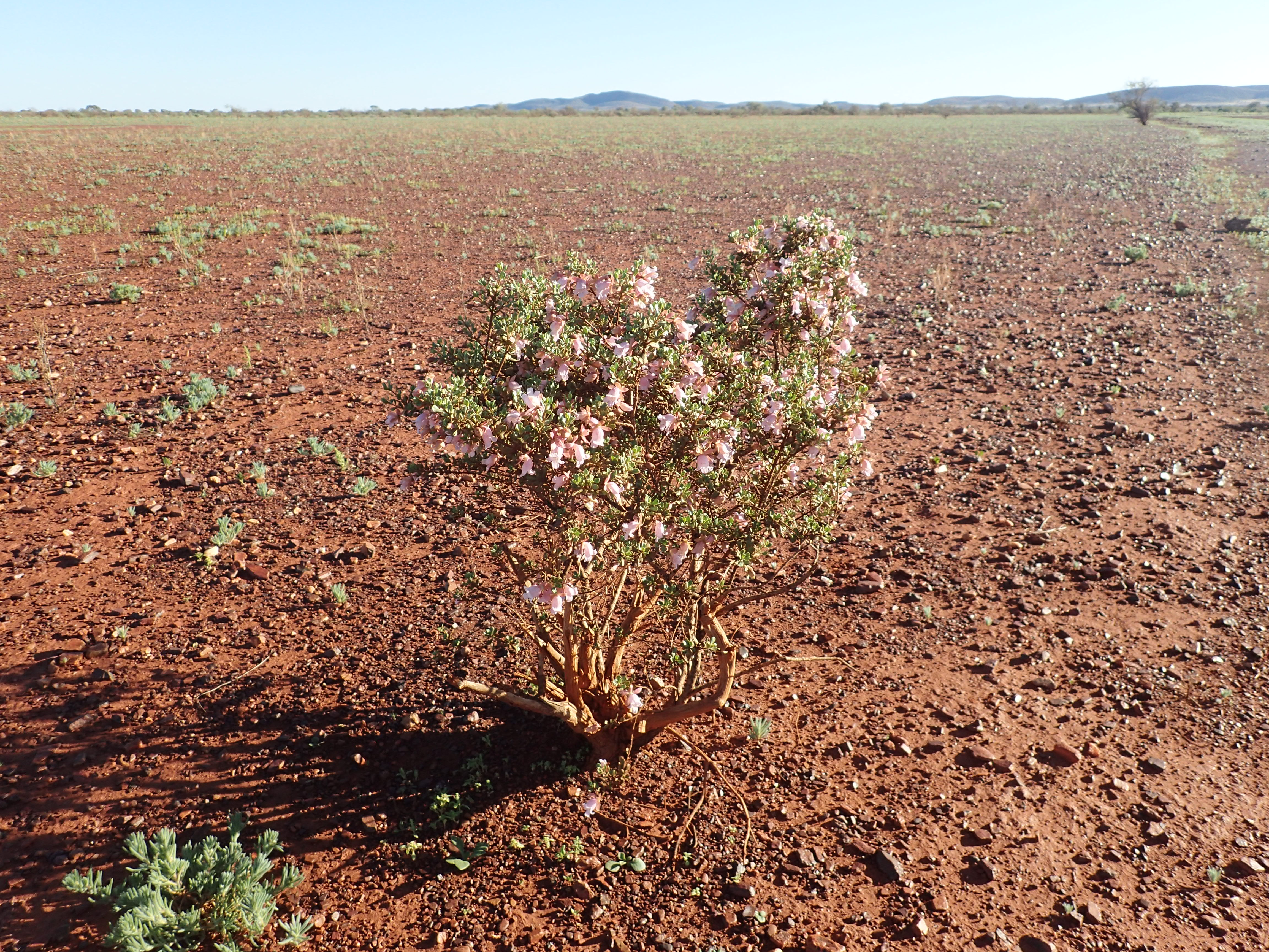 Eremophila reticulata growing about 25km north-east of Mount Augustus